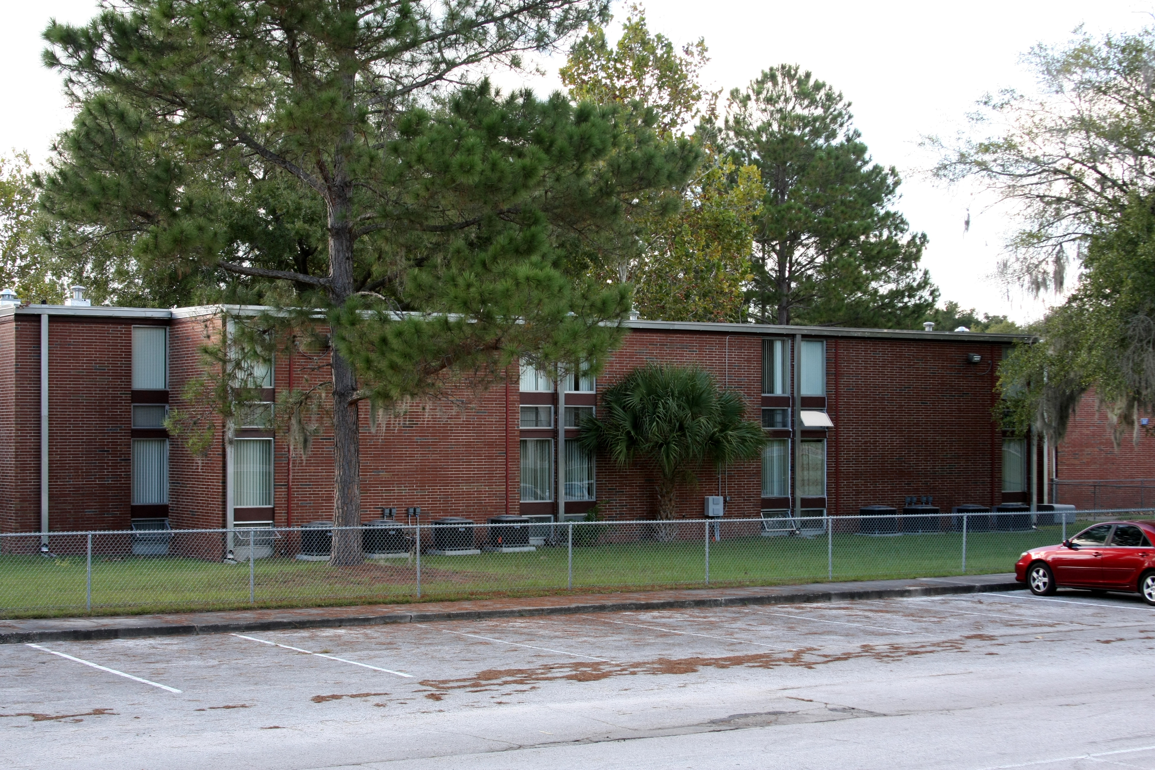 Maguire Apartments, used for graduate and family housing at the University of Florida